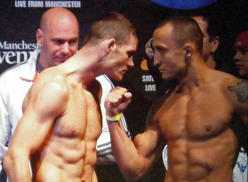 Denis Kang (pictured right) and Michael Bisping at UFC 105 weigh-ins.